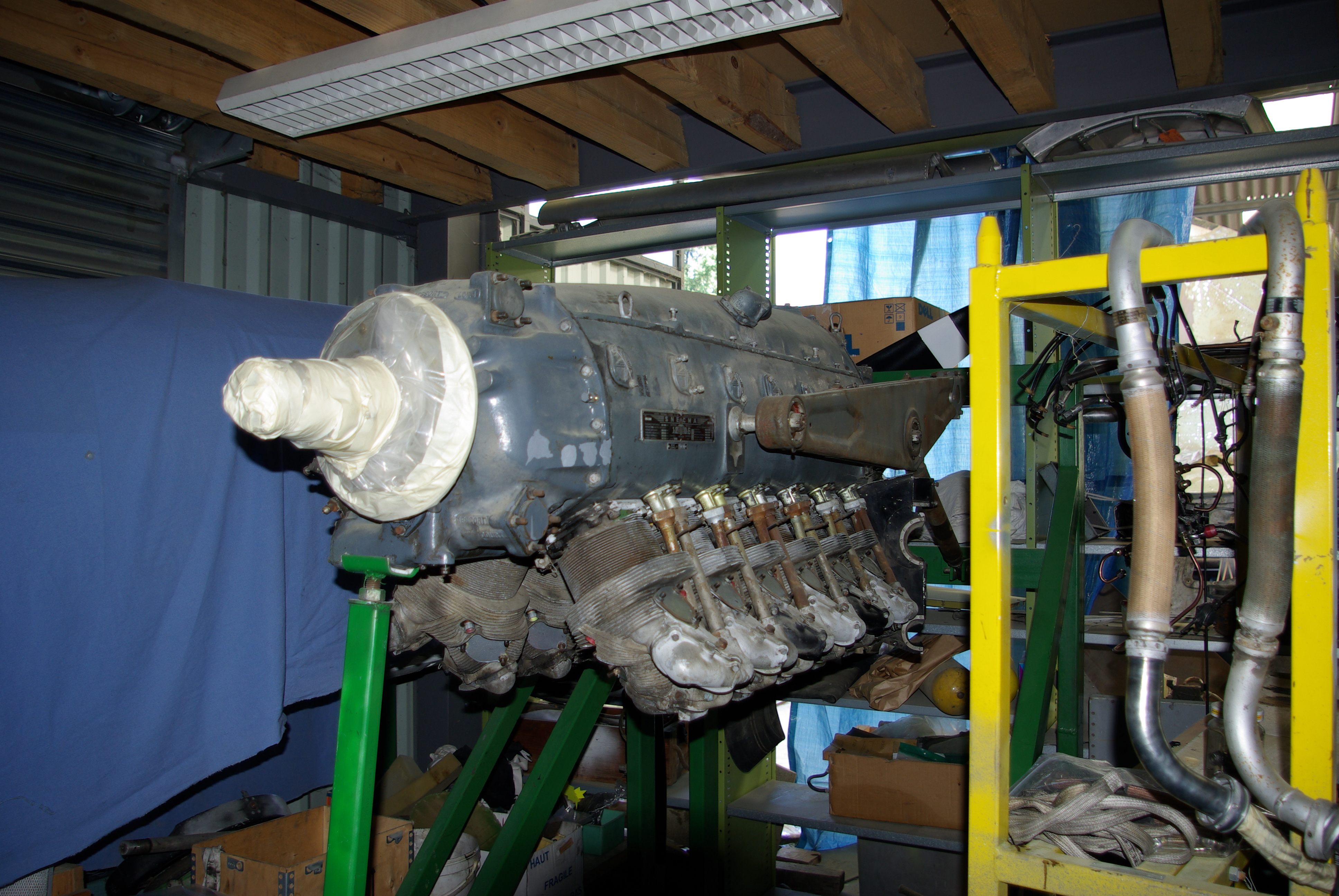 The inverted V12 engine Snecma 12T06 s/n 4830 restored by the Musée des ailes anciennes (Toulouse, France). This engine fit out the Dassault Flamant.